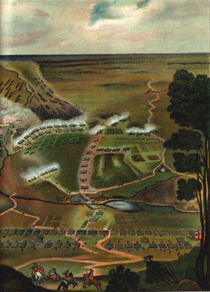 Battle of Kłecko (known also as battle of Gniezno)